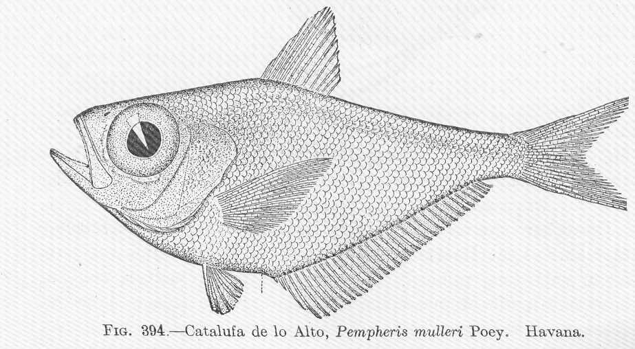 Catalufa de lo Alto, Pempheris mulleri Poey. Havana Subject: Perciformes Tag: Fish